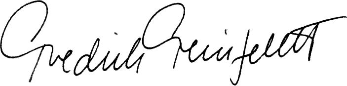 Signature of Fredrik Reinfeldt.